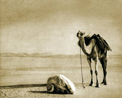 A nomad prayer on a desert in Africa. The photo probably taken by Kazimierz Nowak (1897-1937) during his trip through Africa - a Polish traveller, correspondent and photographer. Probably the first man in the world who crossed Africa alone from the North to the South and from the South to the North (from 1931 to 1936; on foot, by bicycle and canoe).